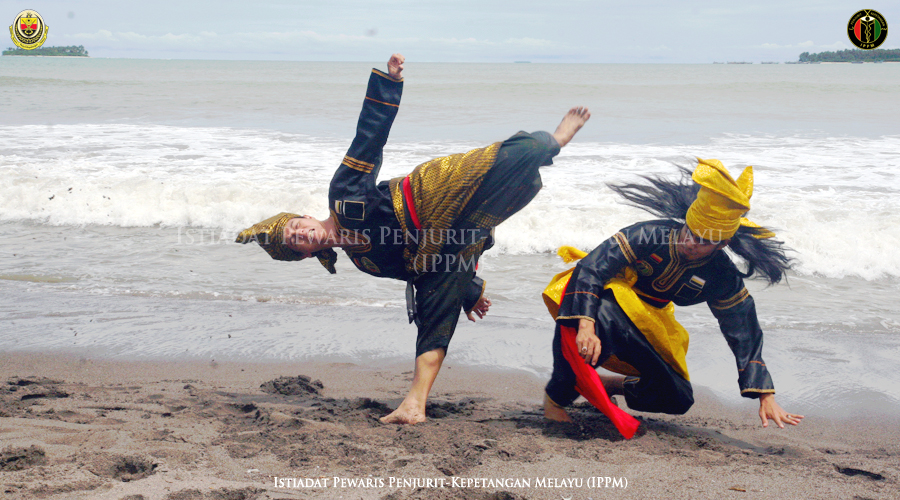 Grand Master Megat Ainuddin performing a sparring (duel) with Tun Azmel Ahmad in Sumatra, Indonesia.